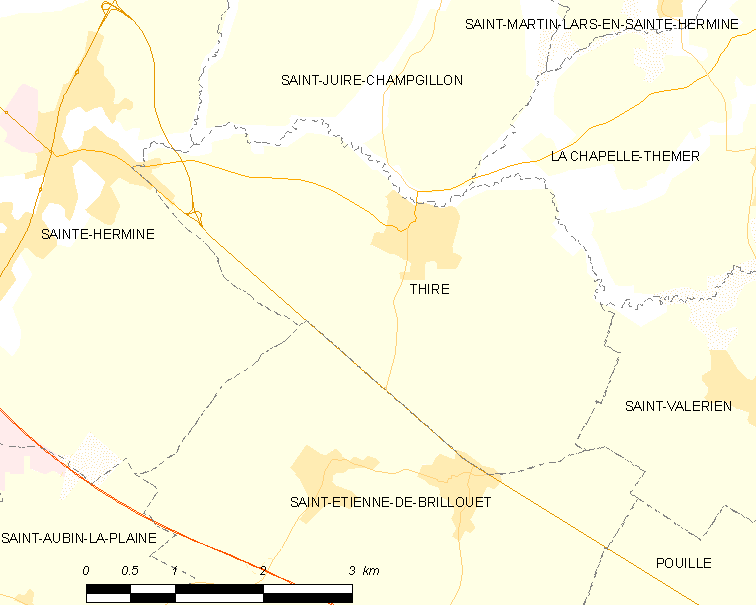 Map of French municipality Thiré